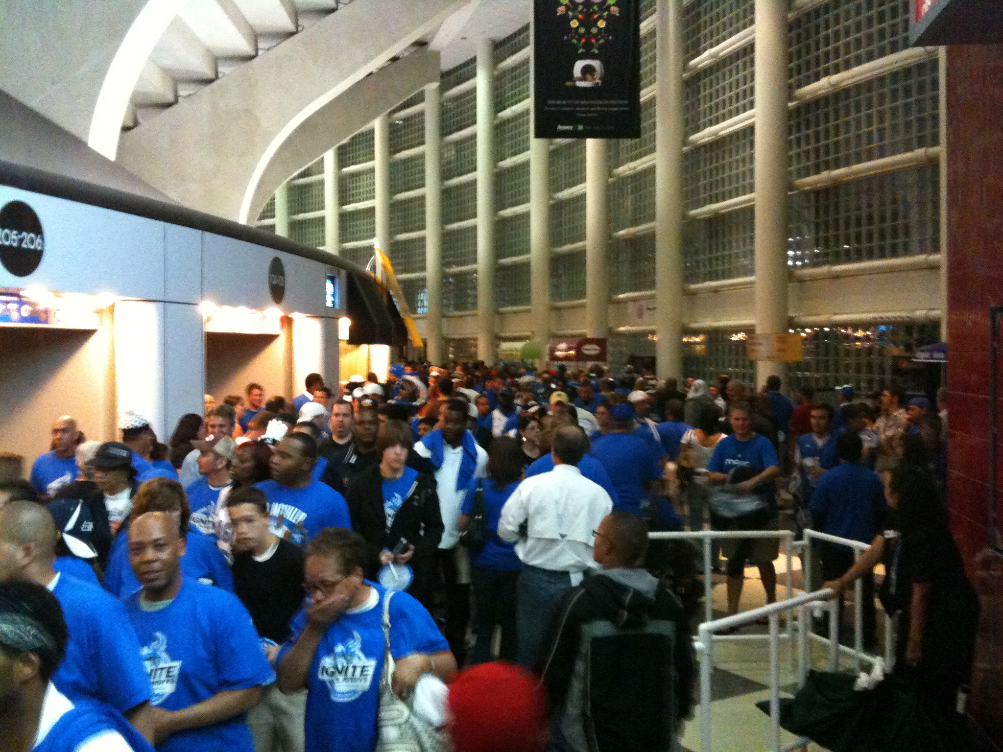 Amway Arena's single concourse